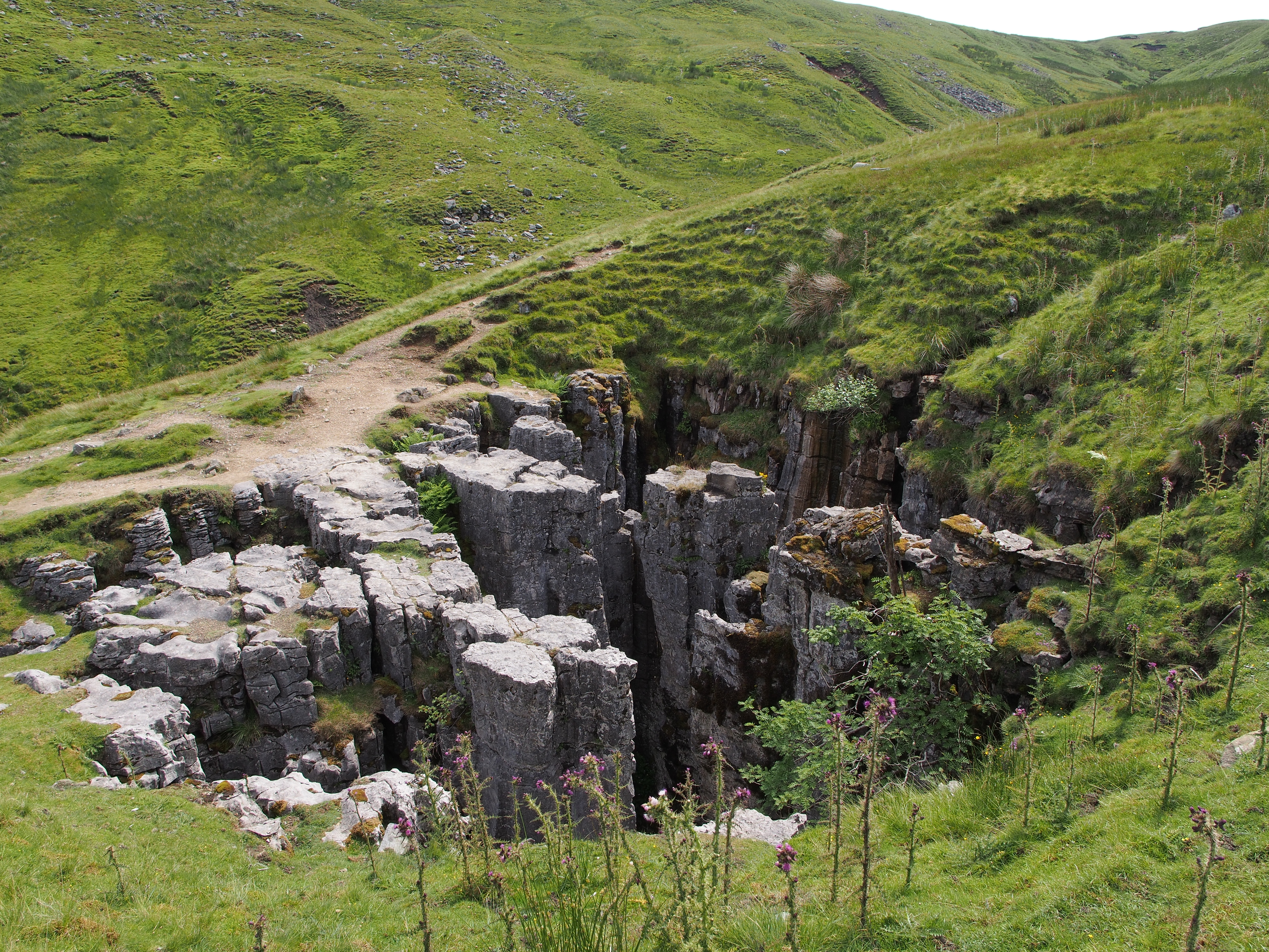 The Butter Tubs, deep Potholes (up to 24 m) formed by Karst processes in North Yorkshire